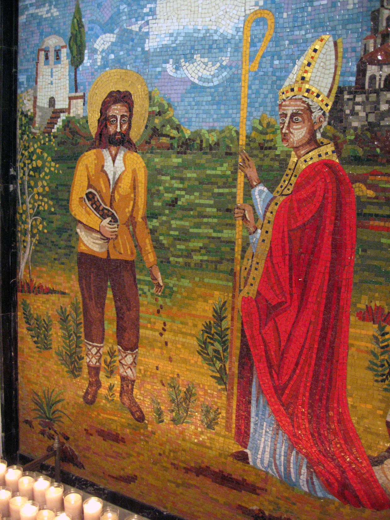 Chapel of Sant Medir (Saint Emeterius) in Sant Cugat del Vallès (Catalonia).